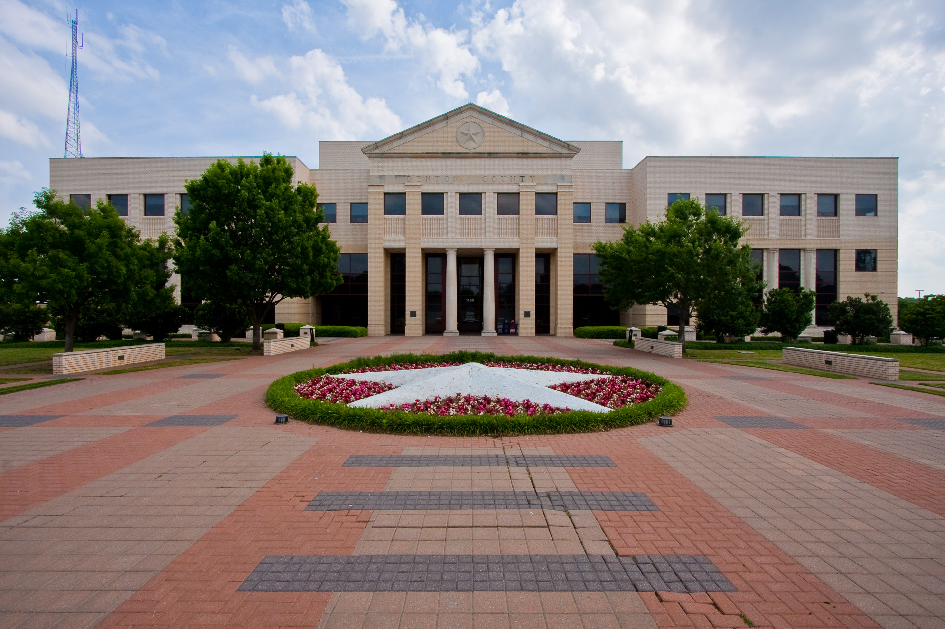 John Bunyan Denton, a Methodist preacher, entered Texas for the first time in 1836. To support his family he also became a lawyer and practiced law in Clarksville and like other men at the time he joined the military when he was needed. On May 22, 1841 he accompanied Col. Edward H. Tarrant and other men in his company at the battle of Village Creek, a fight between the settlers and Indians near present day Fort Worth. He was killed early on in the fight while raising his rifle to fire. His body was buried and moved once before being moved a final time to the corner of the courthouse square in 1901. Denton County was formed in 1846 but the town of Denton was not created until 1857 when residents required a county seat more centrally located. Today Denton is one of the fastest growing cities in the United States. The 1896 courthouse still stands, known as the Denton County Courthouse-on-the-Square. It holds some county offices and a museum. Several blocks away you will find the current courthouse (above), known as the Denton County Courts Building, built in 1998.